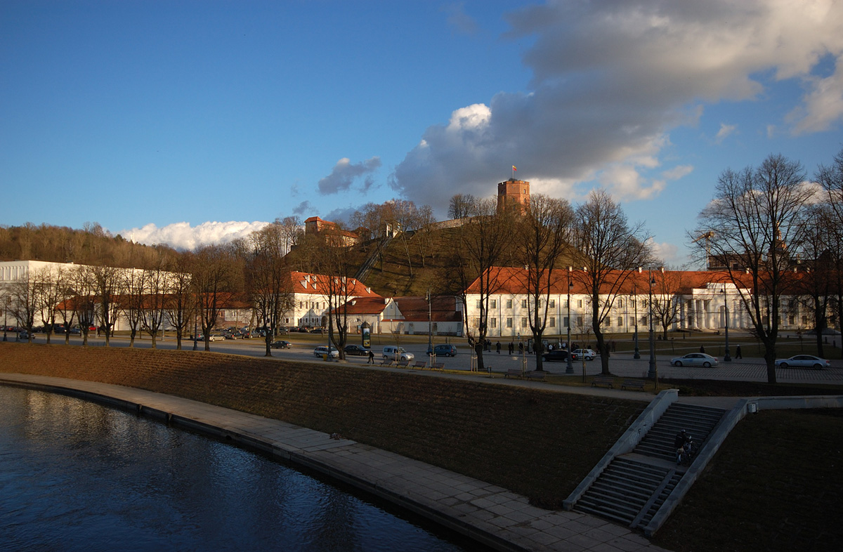 Vilnius Castle Complex